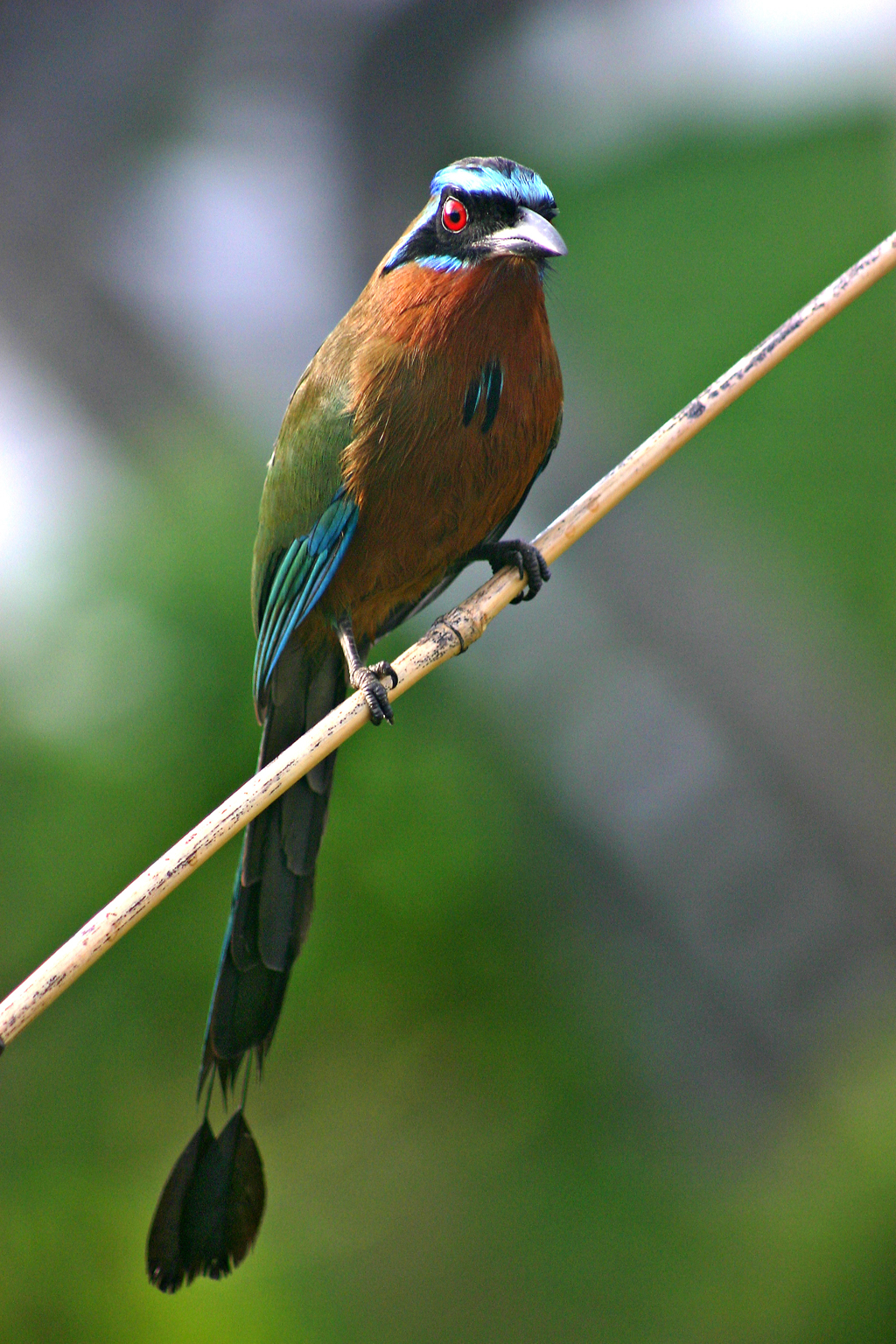 Blue-crowned motmot, Momotus momota bahamensis, at Arnos Vale, Tobago. Colours brightened by Fir0002 and image shrunk by myself. The original image and the camera settings can be found at Image:Blue-crowned Motmot front.jpg.